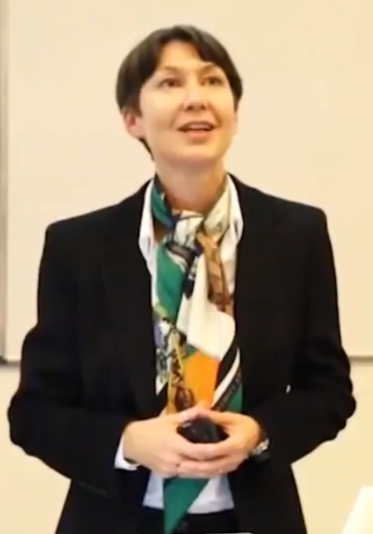 Italian astrophysicist Giovanna Tinetti talks about the discovery of exoplanets with ARIEL in 2018